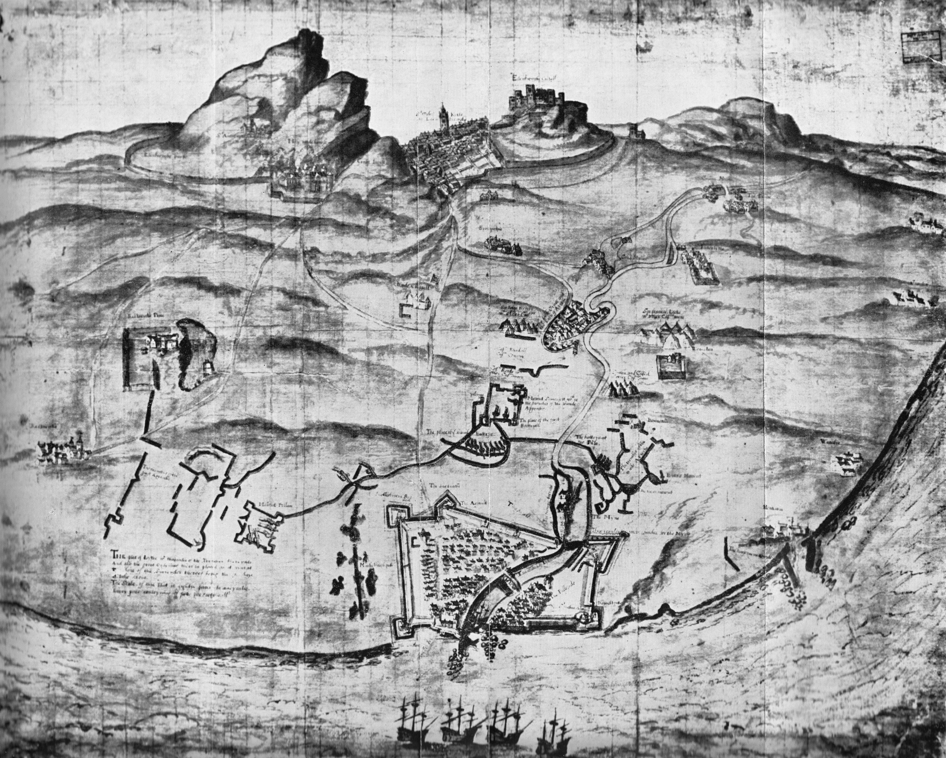 Siege of Leith map, 1560. The colour original is in the archive of Petworth House, Sussex. Copies are displayed in South Leith Parish Church and Huntly House Museum, Edinburgh. The above image is annotated on its description page at Commons.